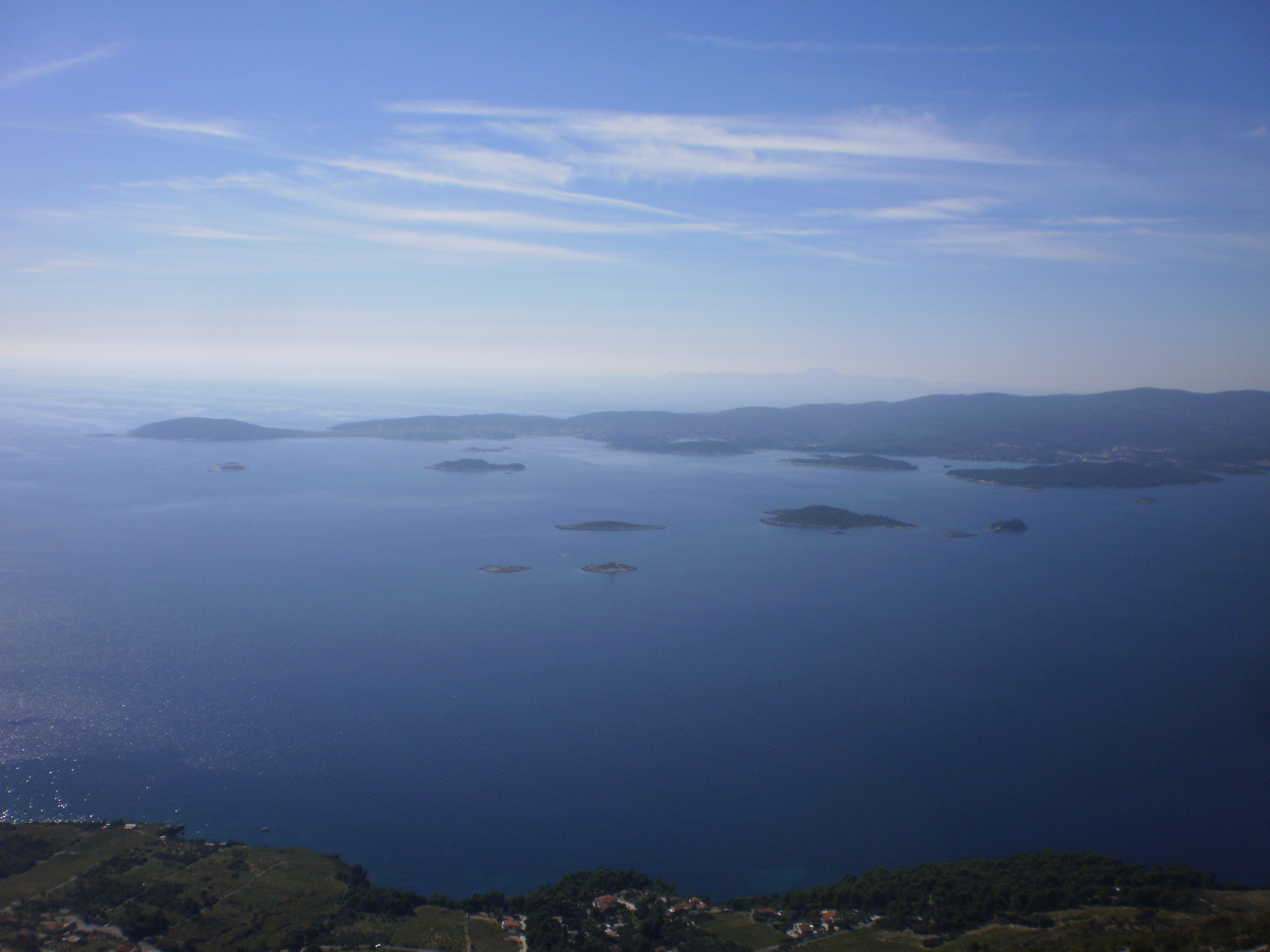 Islands in Pelješac channel